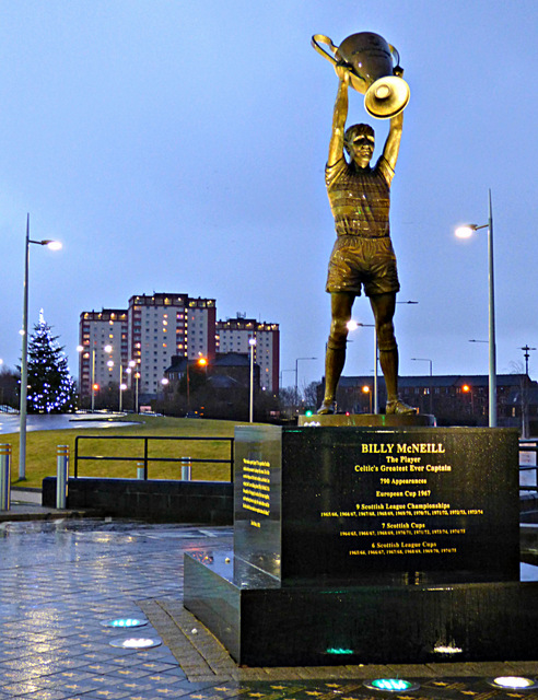 Billy McNeil statue at Celtic Park